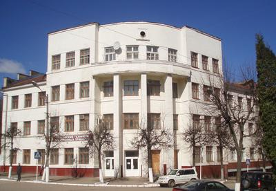 Photo of Russian Smolensk Technical School of Electronic Devices, the main building